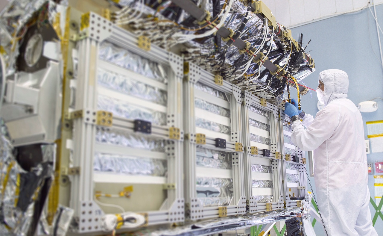 this caption accompanied the text NASA's James Webb Space Telescope Work on the ISIM Electronics Compartment Here a tech is finishing up flight harnesses on the James Webb Space Telescope's Integrated Science Instrument Module (ISIM) Electronics Compartment (IEC) in the cleanroom at NASA Goddard. The IEC houses all of the electronics responsible for control, data handling, and telemetry for the Webb telescope's scientific instruments. The ISIM itself is one-of-a-kind living framework that provides electrical power, computing resources, cooling capability as well as extreme structural stability to the Webb telescope. It is a state-of-the-art bonded graphite-epoxy composite attached to the backside of Webb’s telescope structure. The ISIM also contains the four science instruments that will record images and spectra of astronomical objects whose light will be collected by the giant optics of Webb’s telescope element.